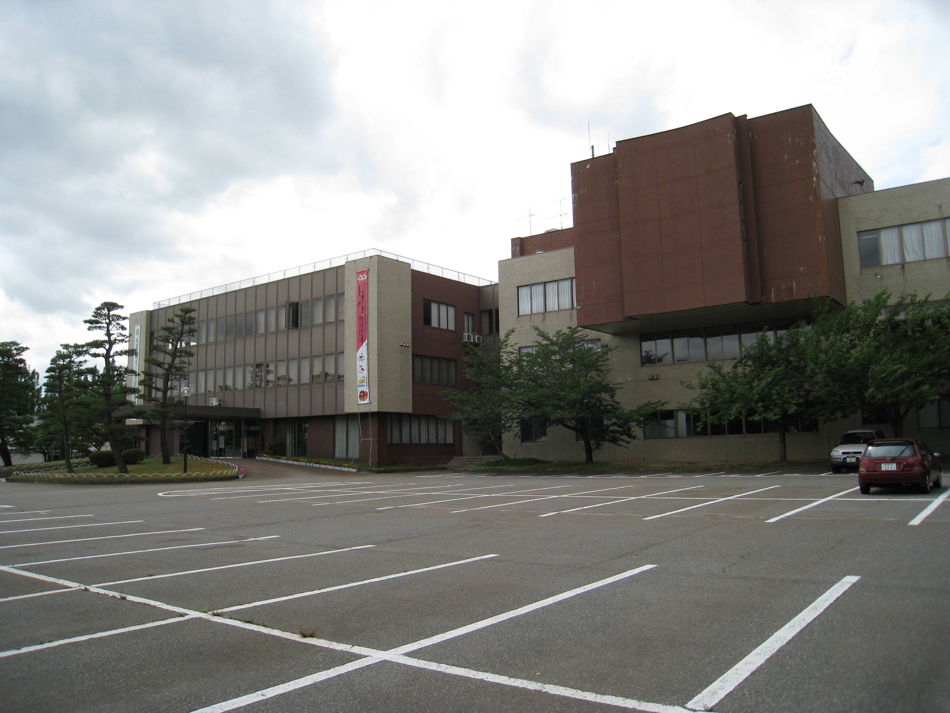 Seirou townhall. Niigata-pref, Japan.